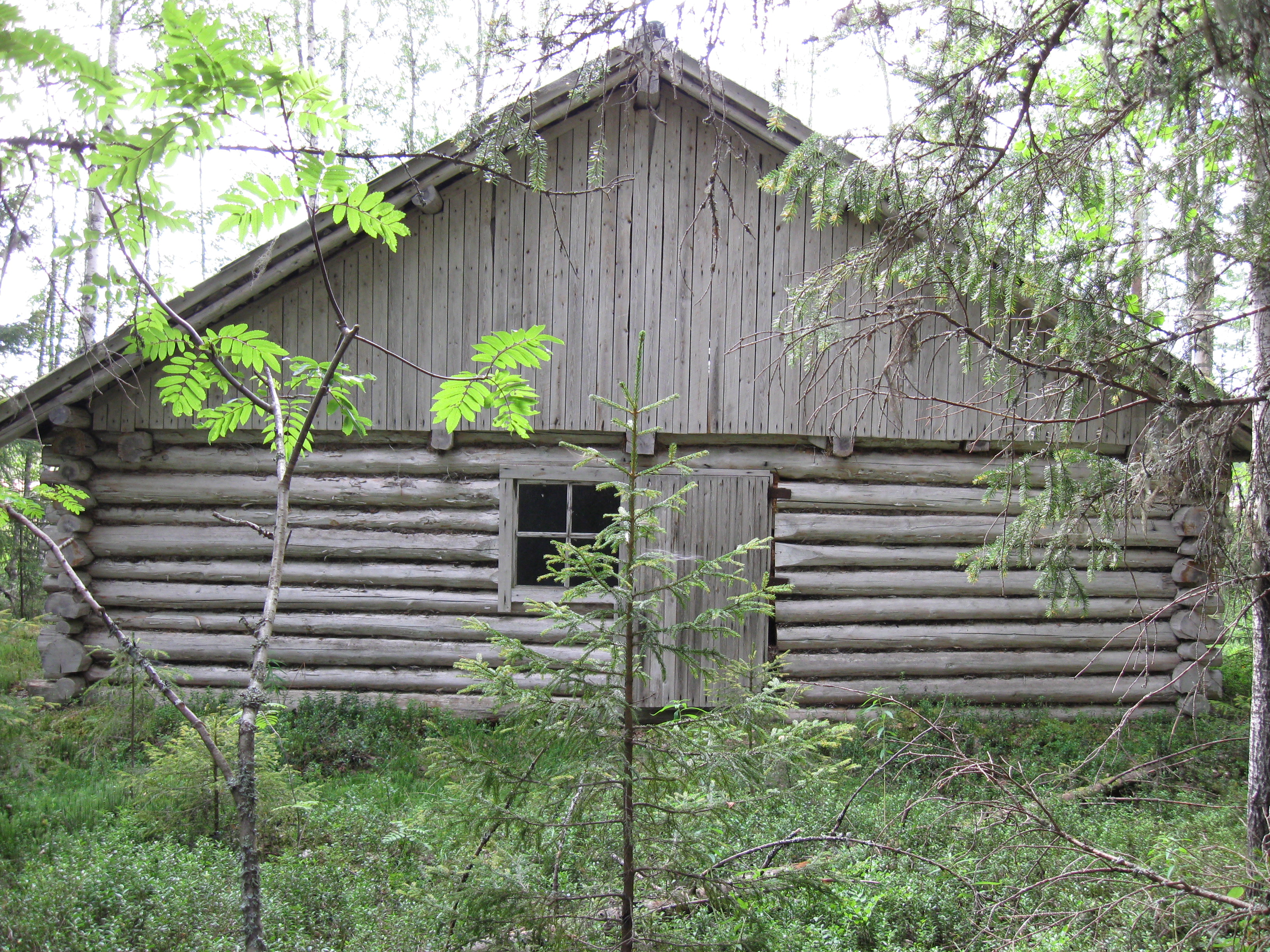 The stable of the former wood logger's camp near the lake Pontema in Utajärvi, Finland.